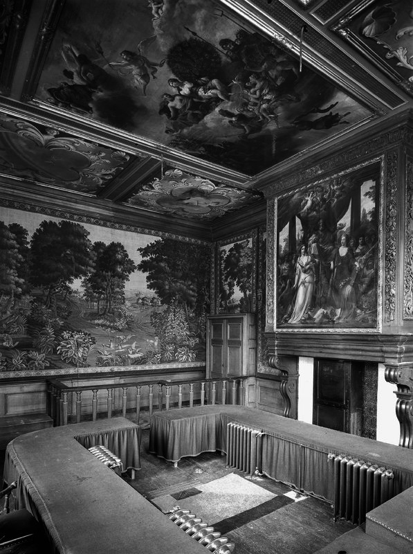 Maastricht, the Netherlands, town hall, so-called Collegekamer (formerly Council Chamber) with verdure tapestries, ordered in 1736 from François Guillaume van Verren in Oudenaarde (Belgium). Chimney piece by Theodore van der Schuer; ceiling paintings by J.B. Coclers, both early 18th c. (the latter replaced in 1965). Photo by G. de Hoog, 1915.